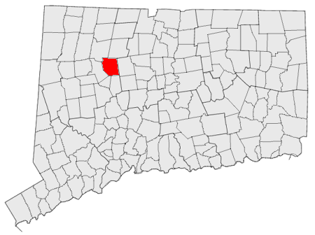 Locator map for Harwinton, Connecticut